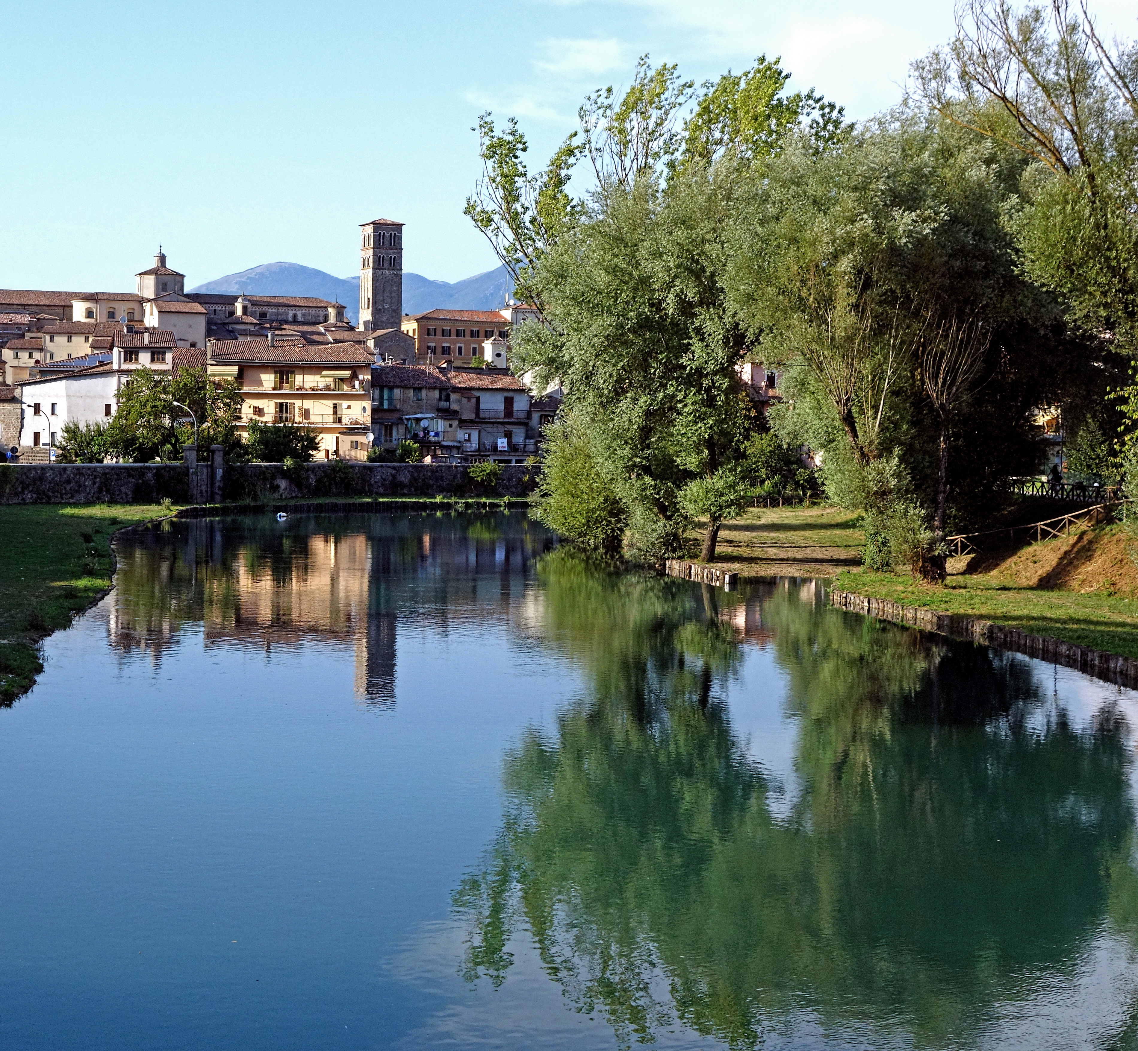 Velino River and Cathedral bell tower - Rieti (Lazio, Italy)